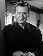 Screenshot of John Wayne from the trailer for the film Wake of the Red Witch.